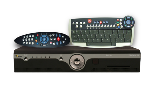 Multimedia Station FS6 of Telsey Telecommunications S.p.A.